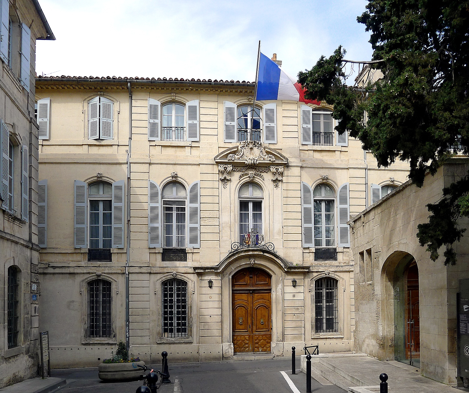 Rue de la Calade - Arles (Bouches-du-Rhône, France)